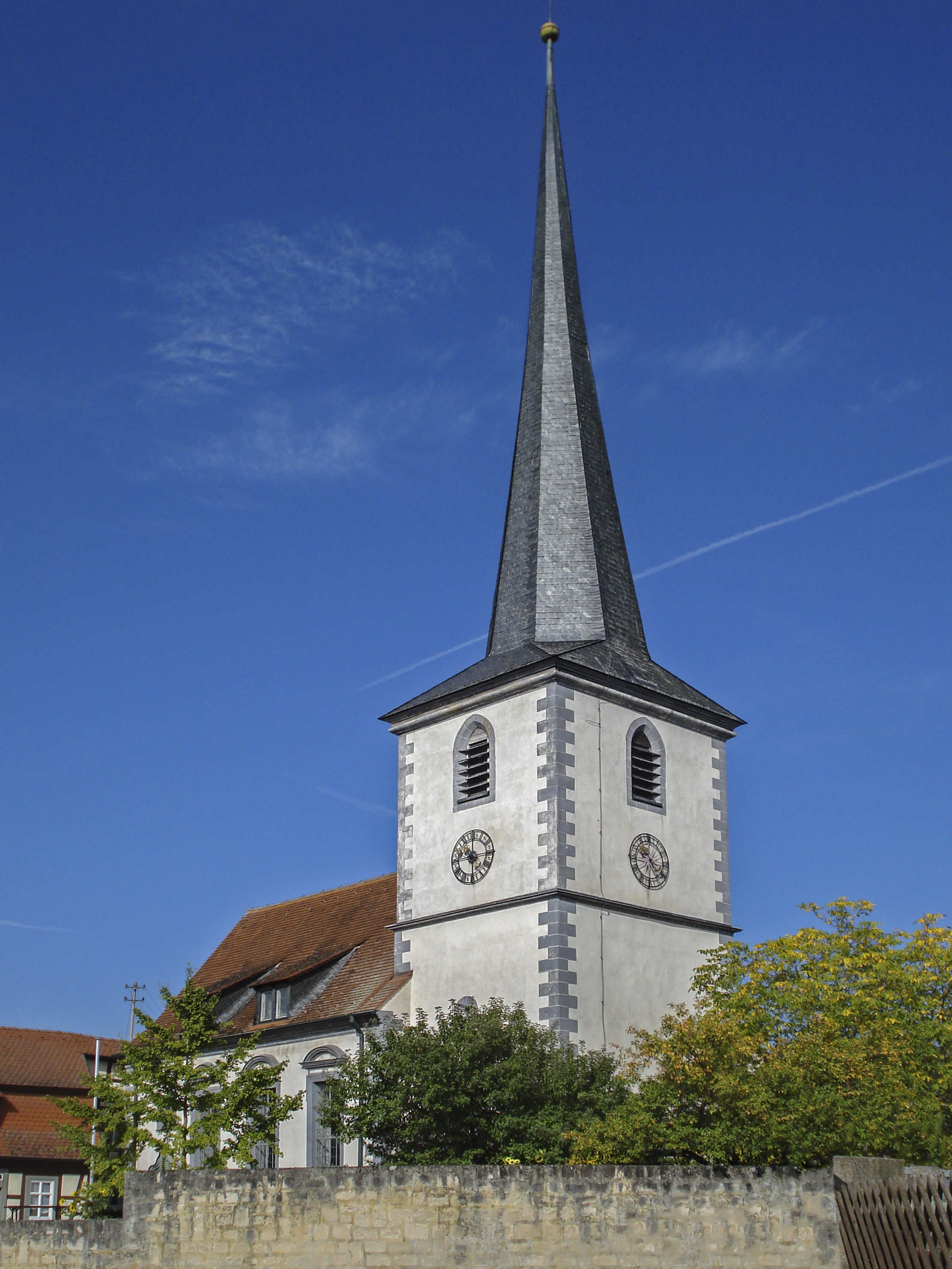 Königsberg i. Bayern, Hellingen